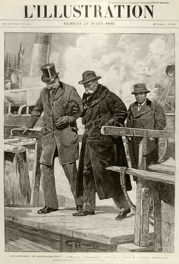 Cover of L'Illustration magazine showing Prime Minister Rainilaiarivony of Madagascar en route to his exile in Algeria.